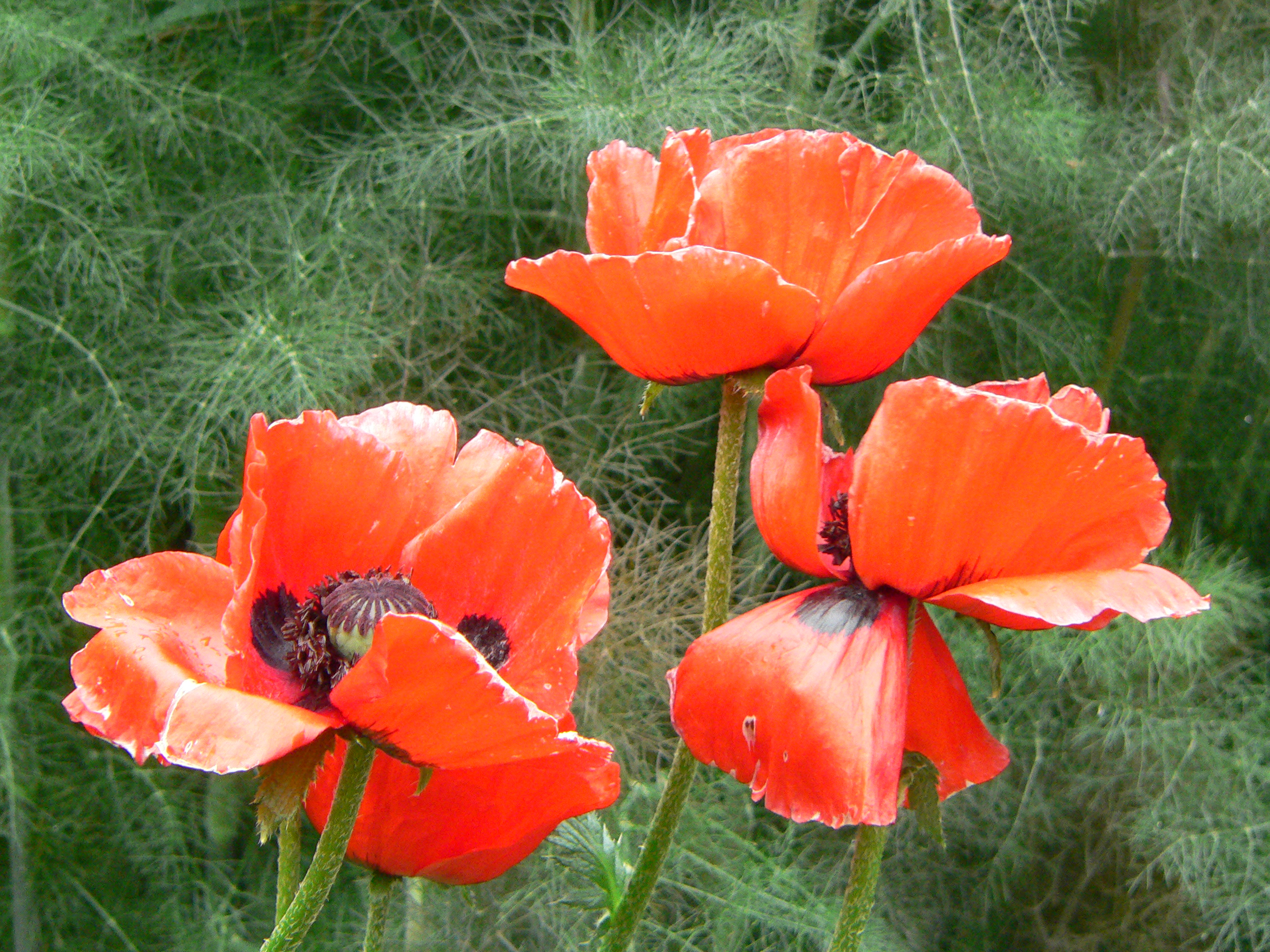 ancestor of the Oriental hybrid poppies, no English name